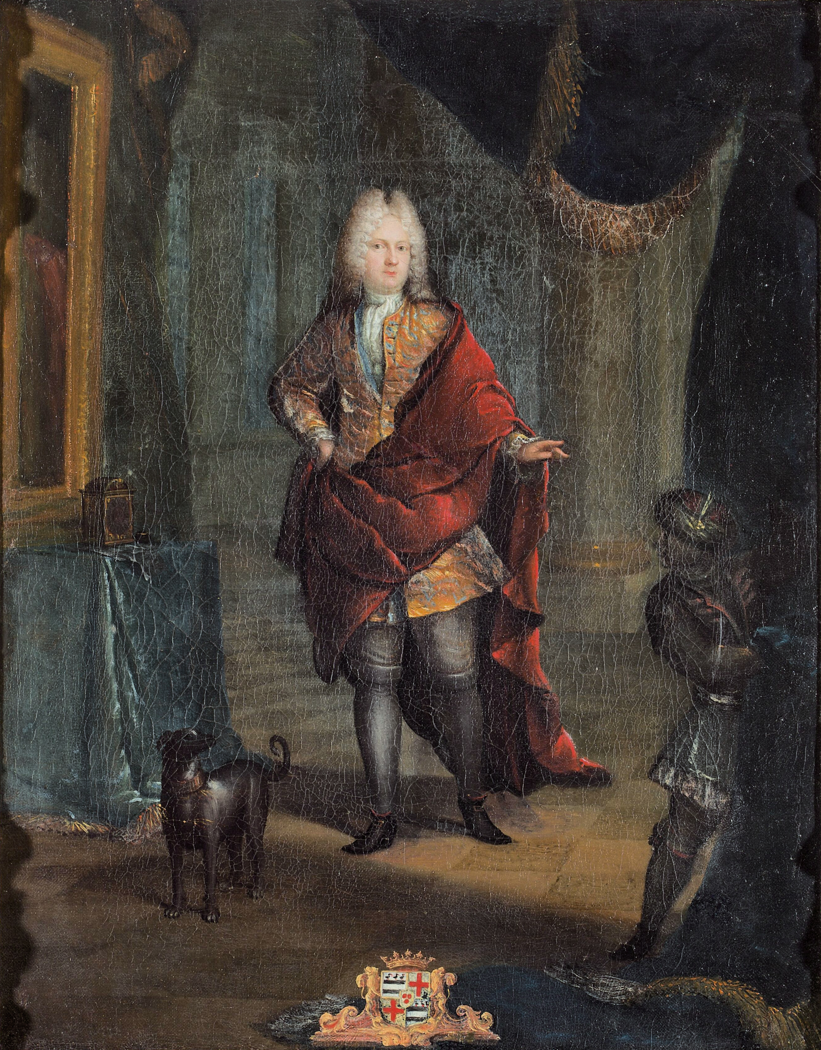 Christiaan Karel van Lintelo (1669-1736), with a servant oil on canvas 41,5 x 34 cm 1712